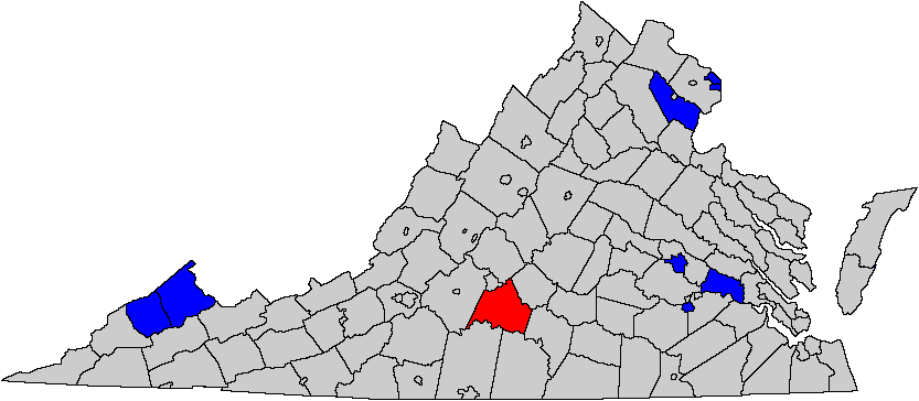 Map showing county choices of the 1976 Senate election in Virginia, between Independent Harry F. Byrd, Jr., Democrat Elmo Zumwalt, and Independent Martin H. Perper